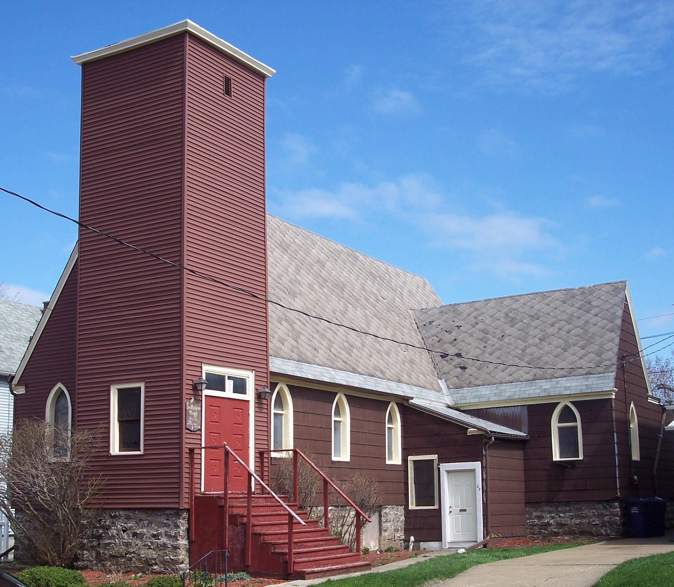 Christadelphian Hall, 23 Glendhu Ave, Buffalo NY